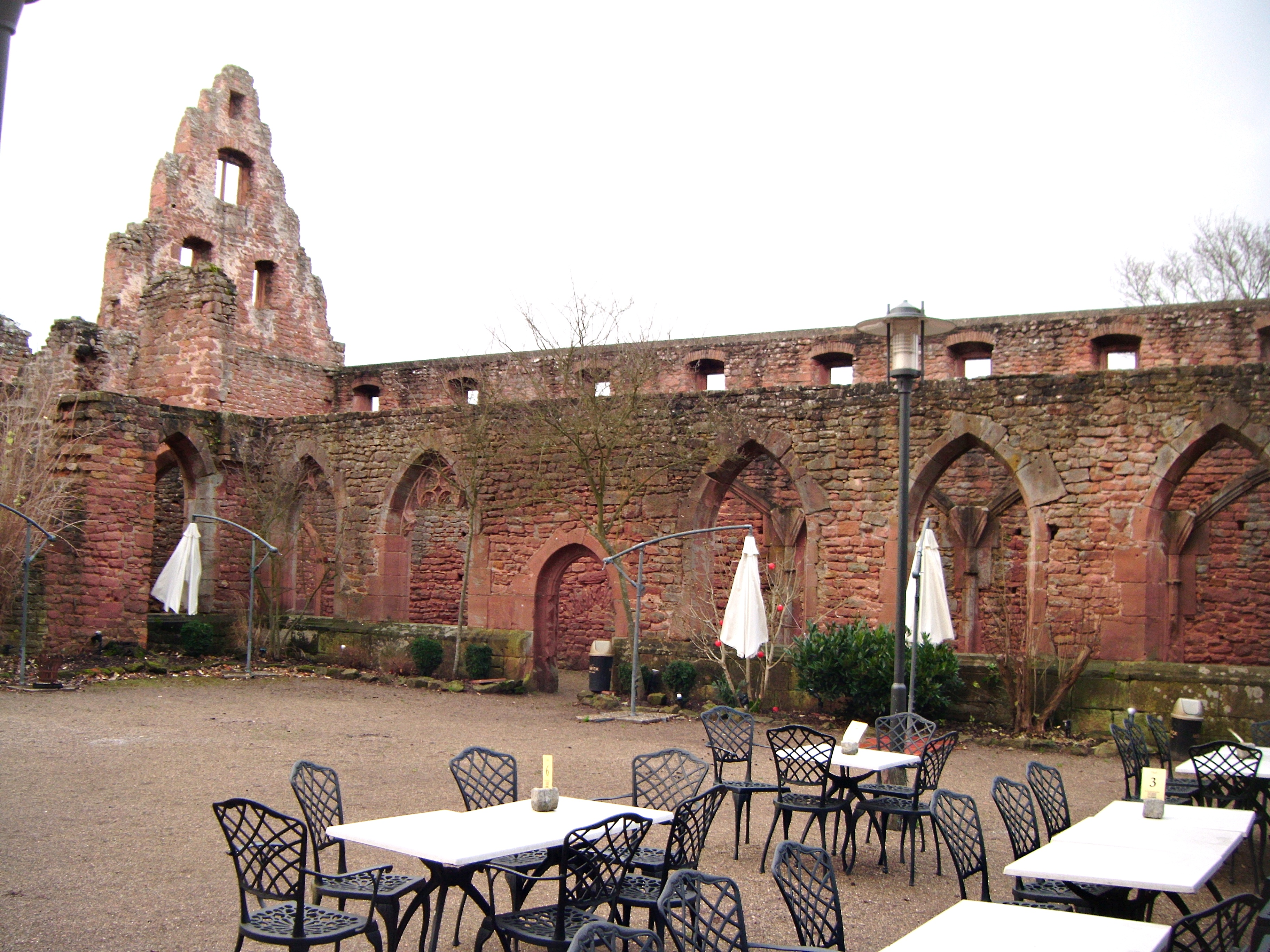 Klosterruine Limburg, Refektoriumsbau